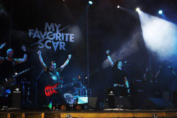 MFS gig in Kherson